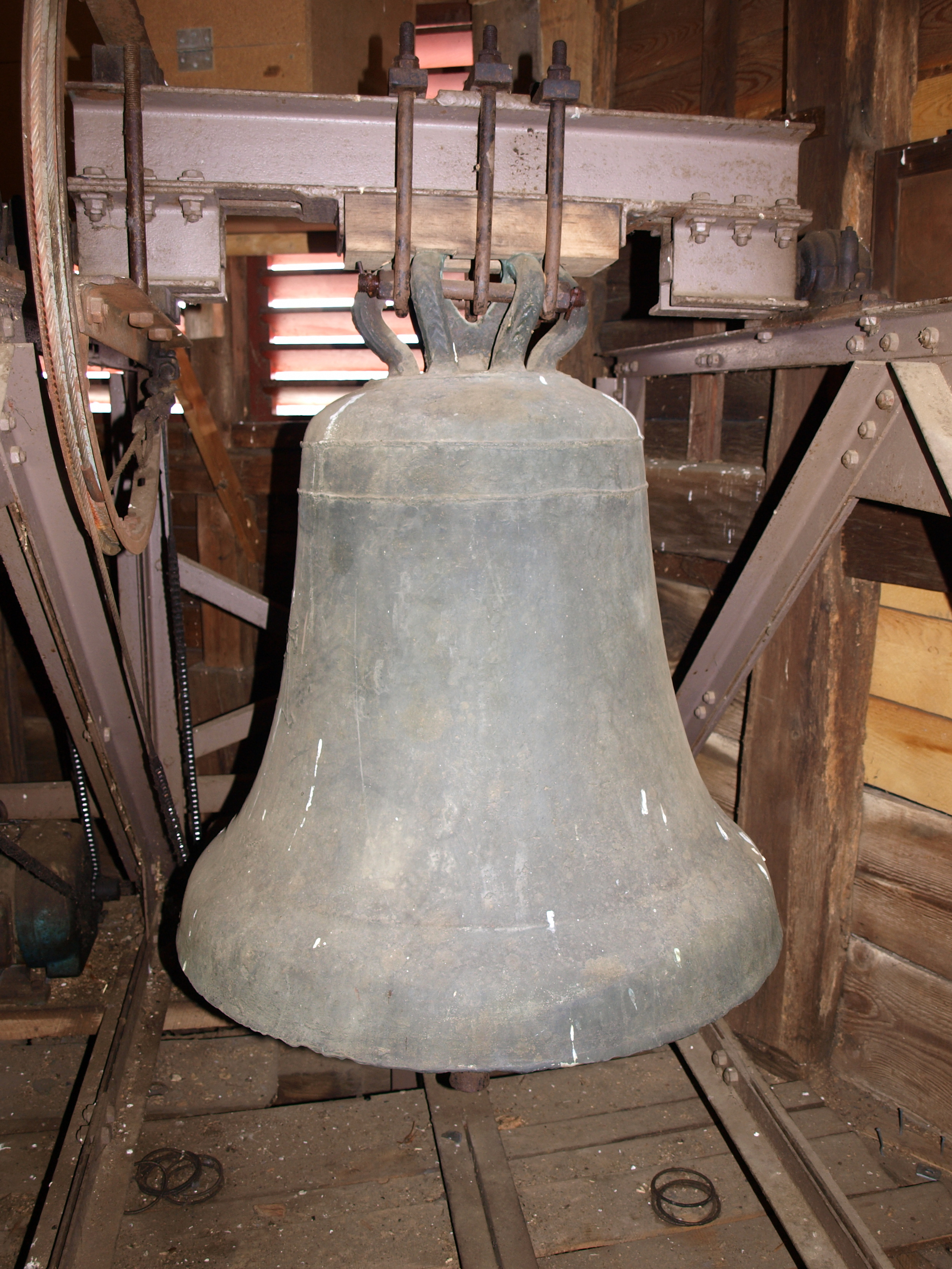 Bell #2 of the protestant church of Waldsolms-Kraftsolms, cast in the 13th century